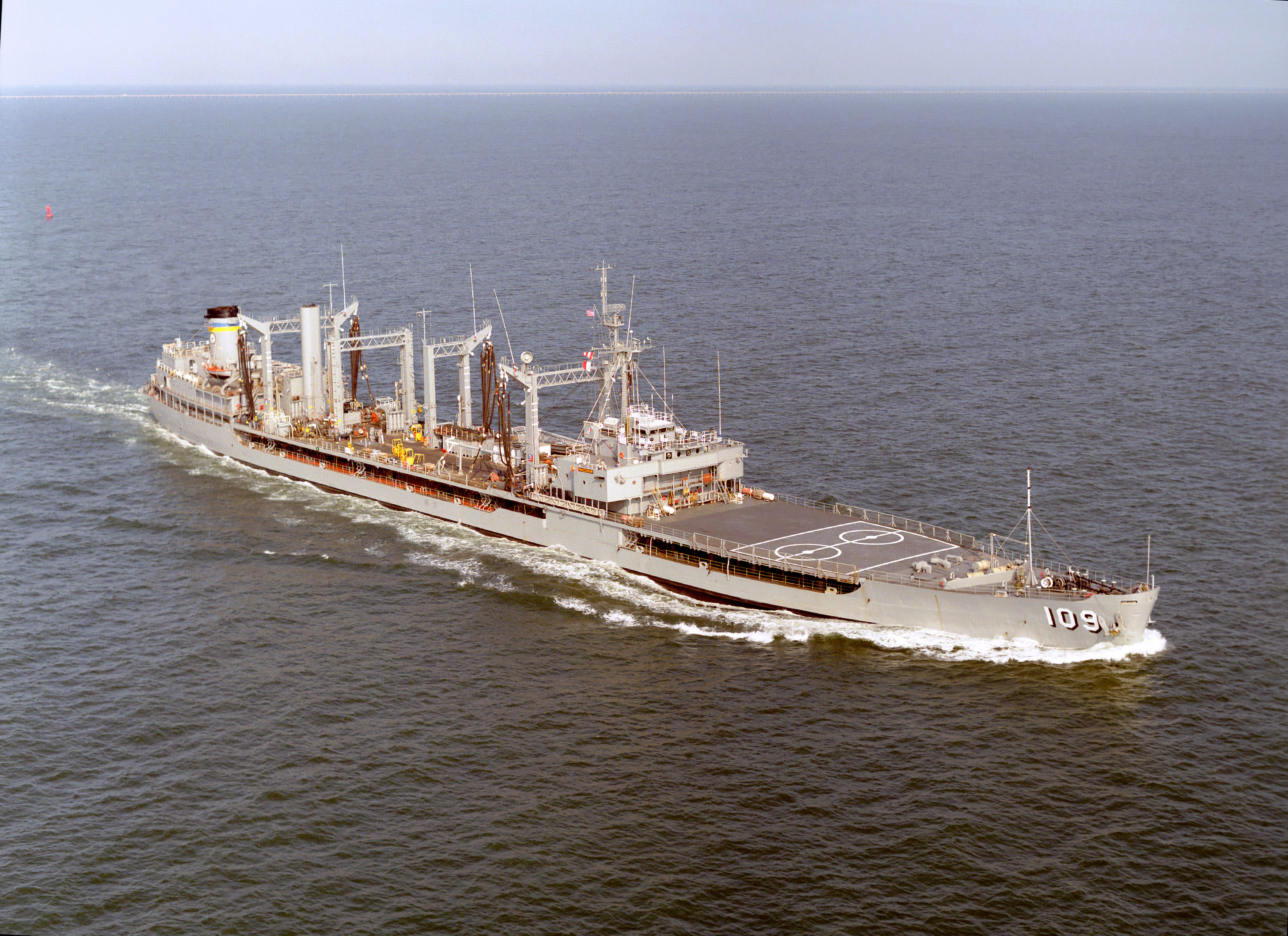 The U.S. Military Sealift Command fleet oiler USNS Waccamaw (T-AO-109) underway in 1984.